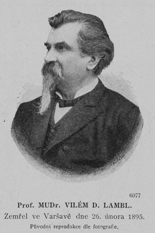 Portrait of Vilém Dušan Lambl, Czech physician.